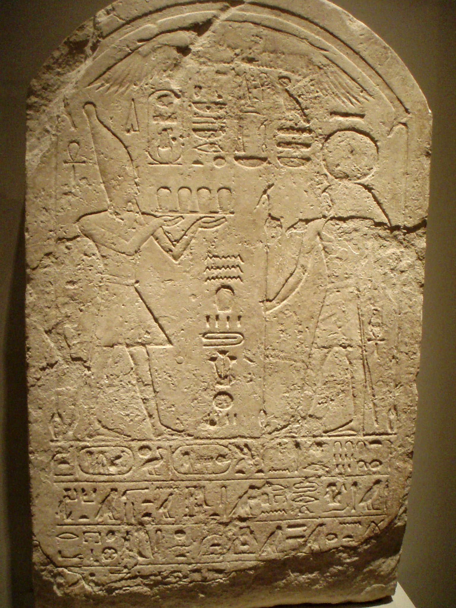 Thutmose III before the God Re-Harakhte. New Kingsdom, 18th dynasty, circa 1455 B.C. Catalog number: 1634. Image taken at the Altes Museum, Berlin.